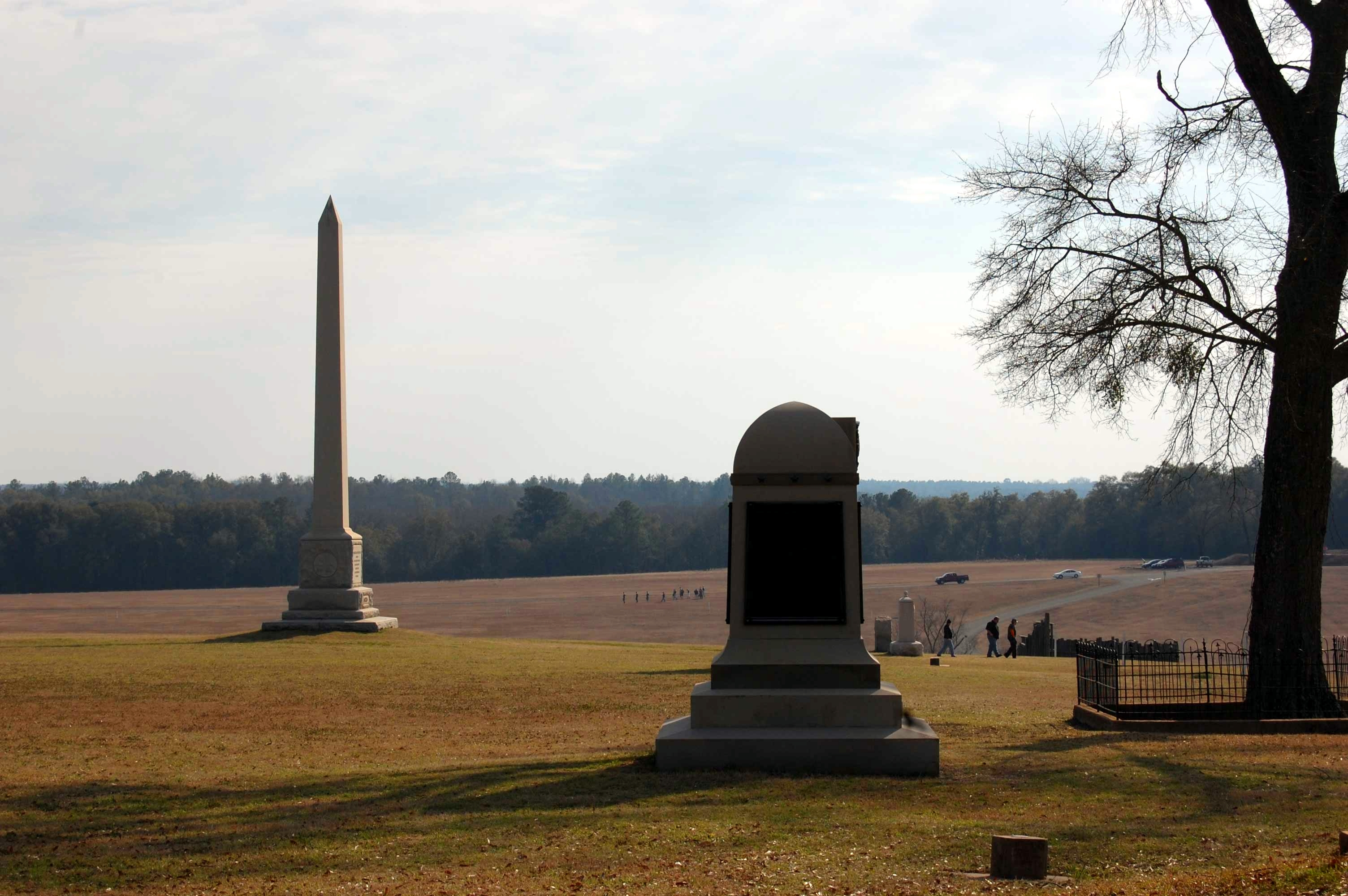 Monuments at Andersonville National Historic Site